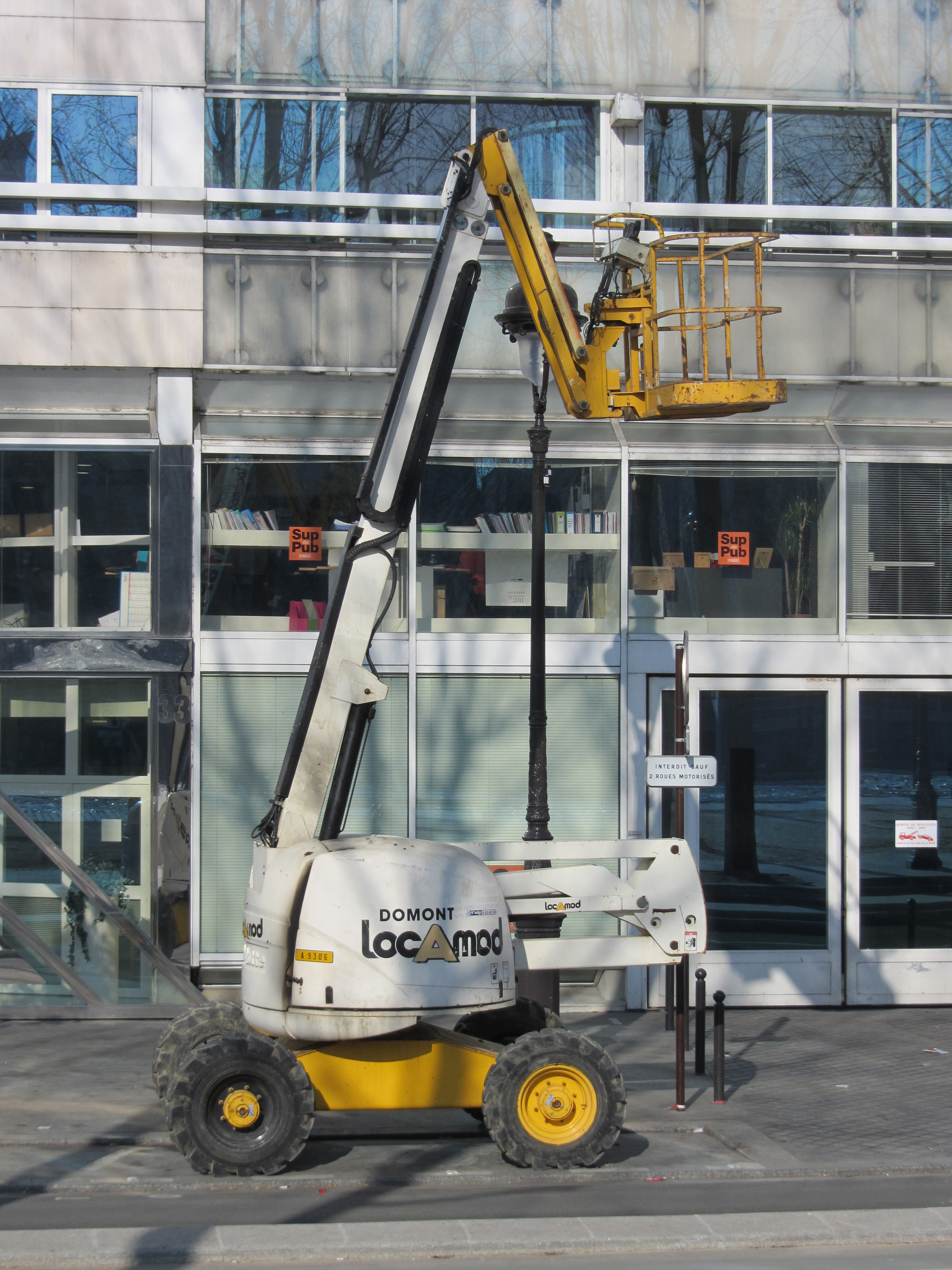 Self-propelled diesel articulating boom lift, Haulotte HA 18 PX, in Paris, France.